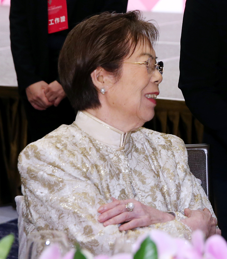 Tseng Wen-hui, former First Lady of the Republic of China (Taiwan) , in 2016